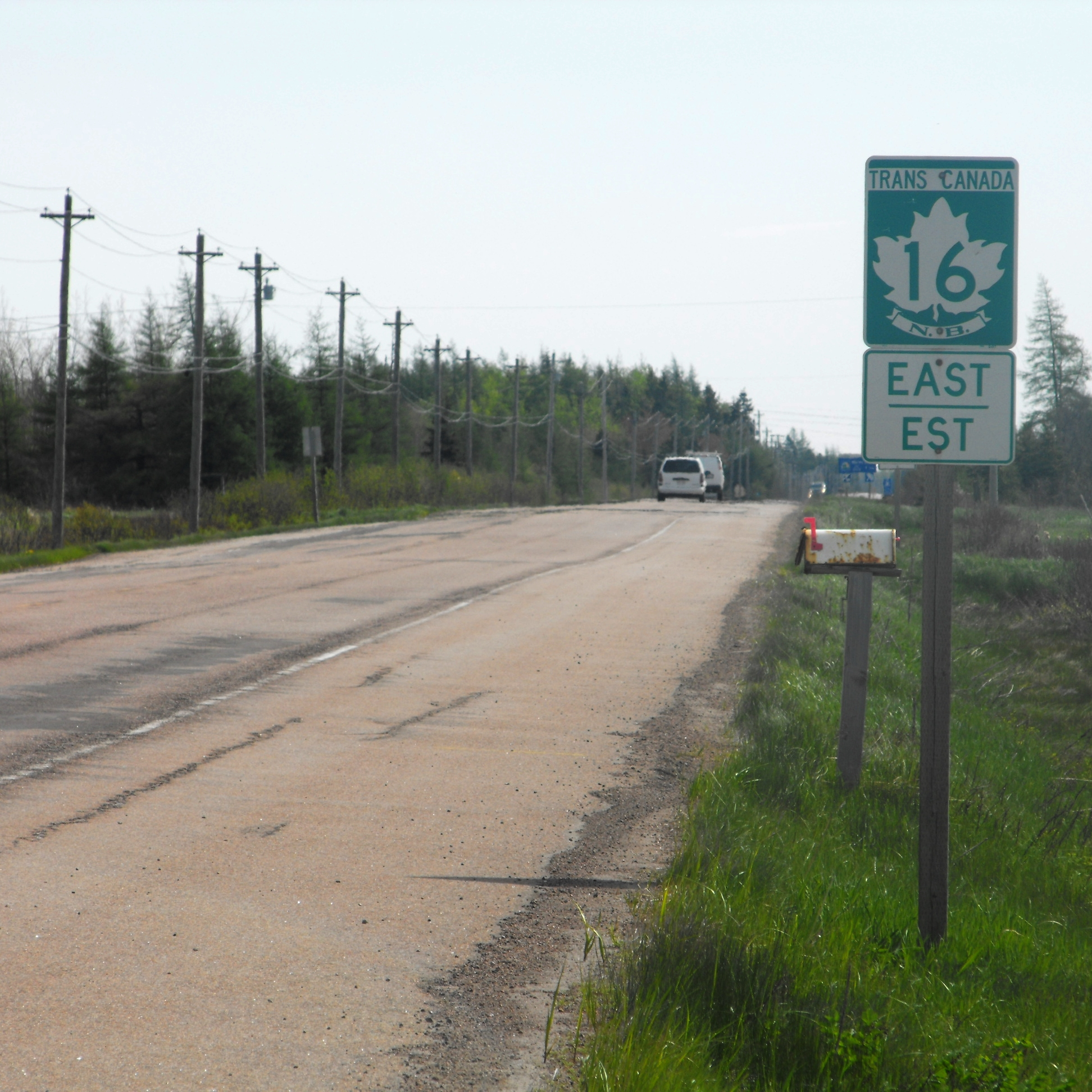 Route Sign, NB Route16, Westmorland County, New Brunswick